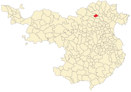 Biure